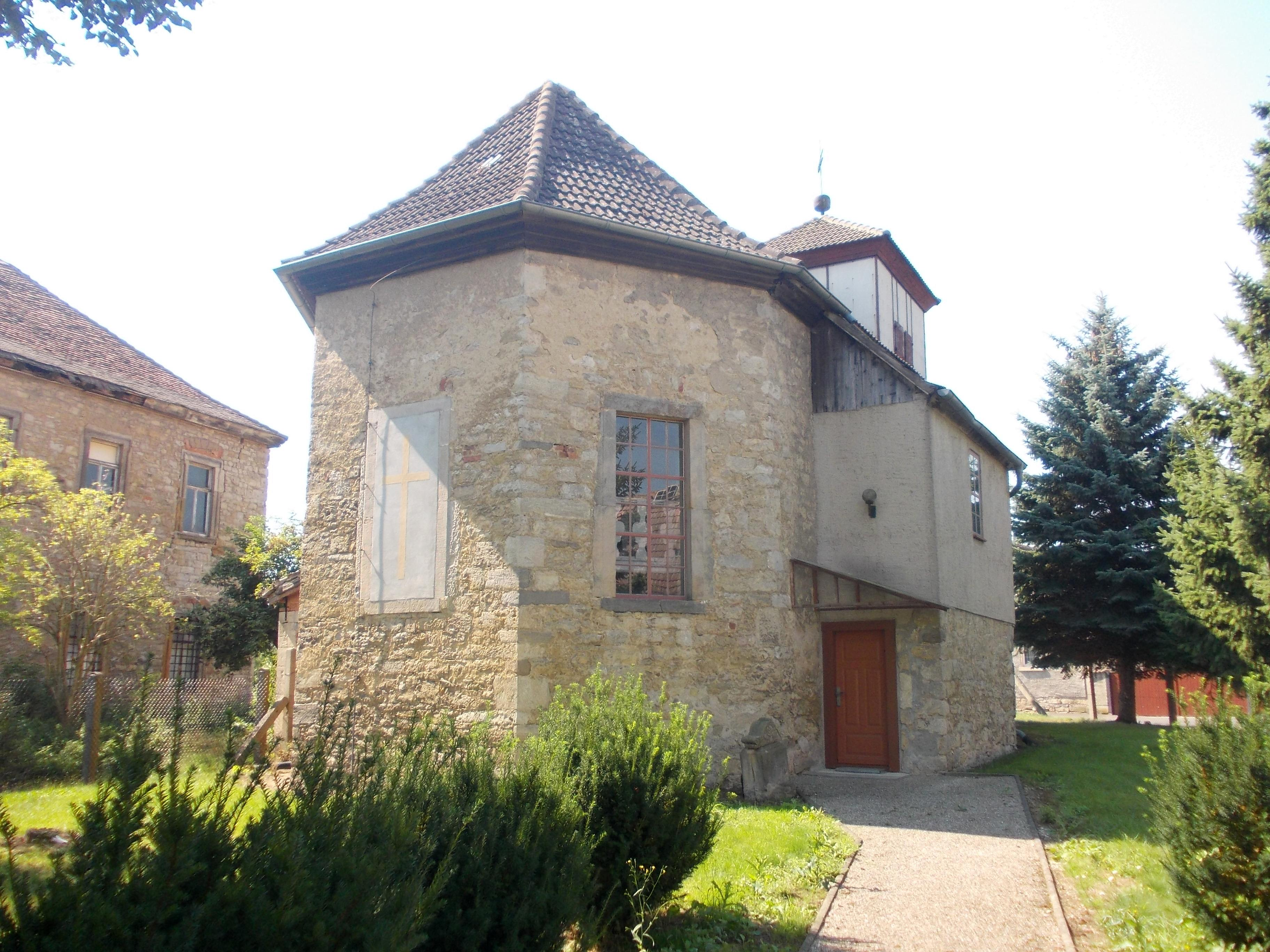 Gössnitz church (An der Poststrasse, district: Burgenlandkreis, Saxony-Anhalt)